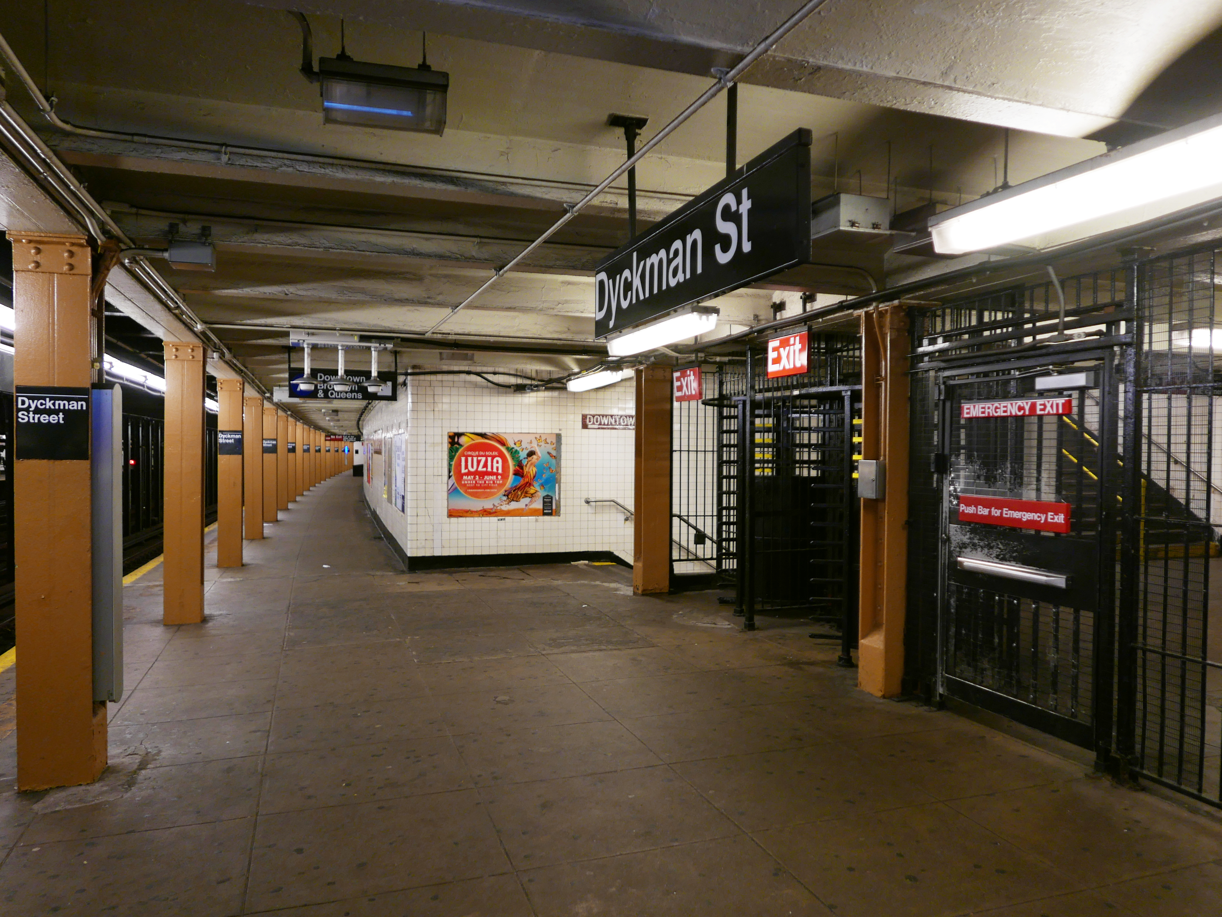 The exit on the northbound platform of the IND Dyckman Street Station. Entrance to underpass in view.